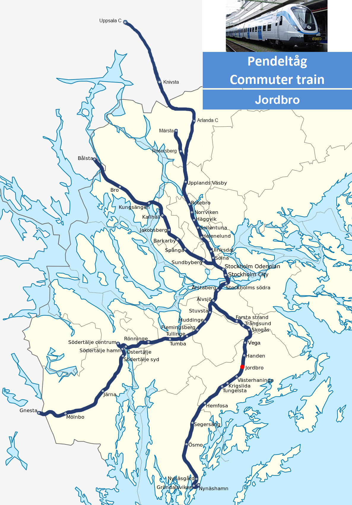 Jordbro station map